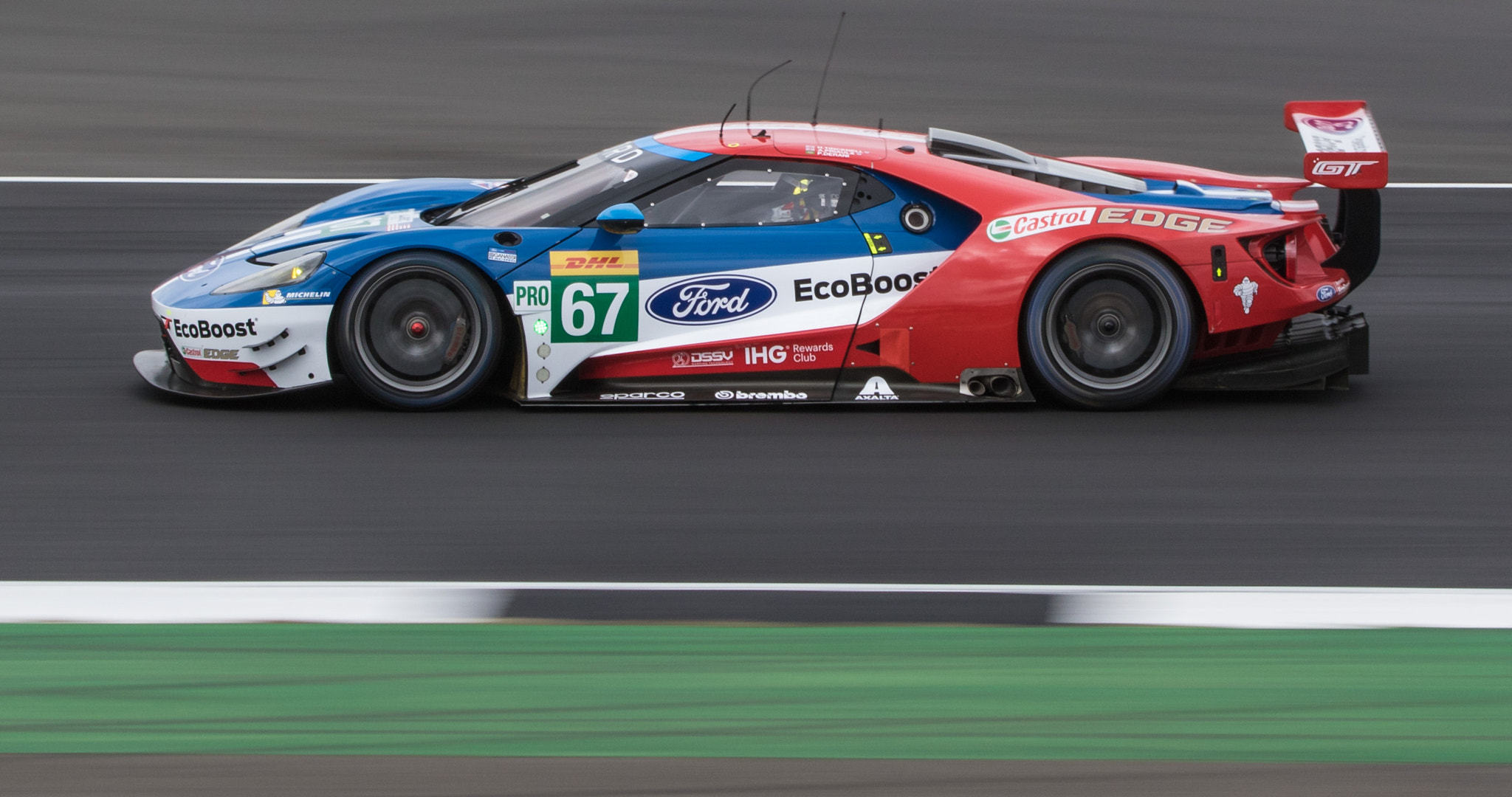 500px provided description: At speed the 67 Ford GT driven by Andy Priaulx, Harry Tincknell and Luis Felipe Derani during the WEC round at Silverstone. [#car ,#drive ,#fast ,#race ,#track ,#vehicle ,#machine ,#circle ,#grand ,#speedway ,#competition ,#action ,#championship ,#racer ,#tournament ,#driver ,#circuit ,#hurry ,#formula ,#World Endurance Championship ,#Cars ,#Automotive ,#Porsche ,#Motorsport ,#International ,#WEC ,#Sportdcars]